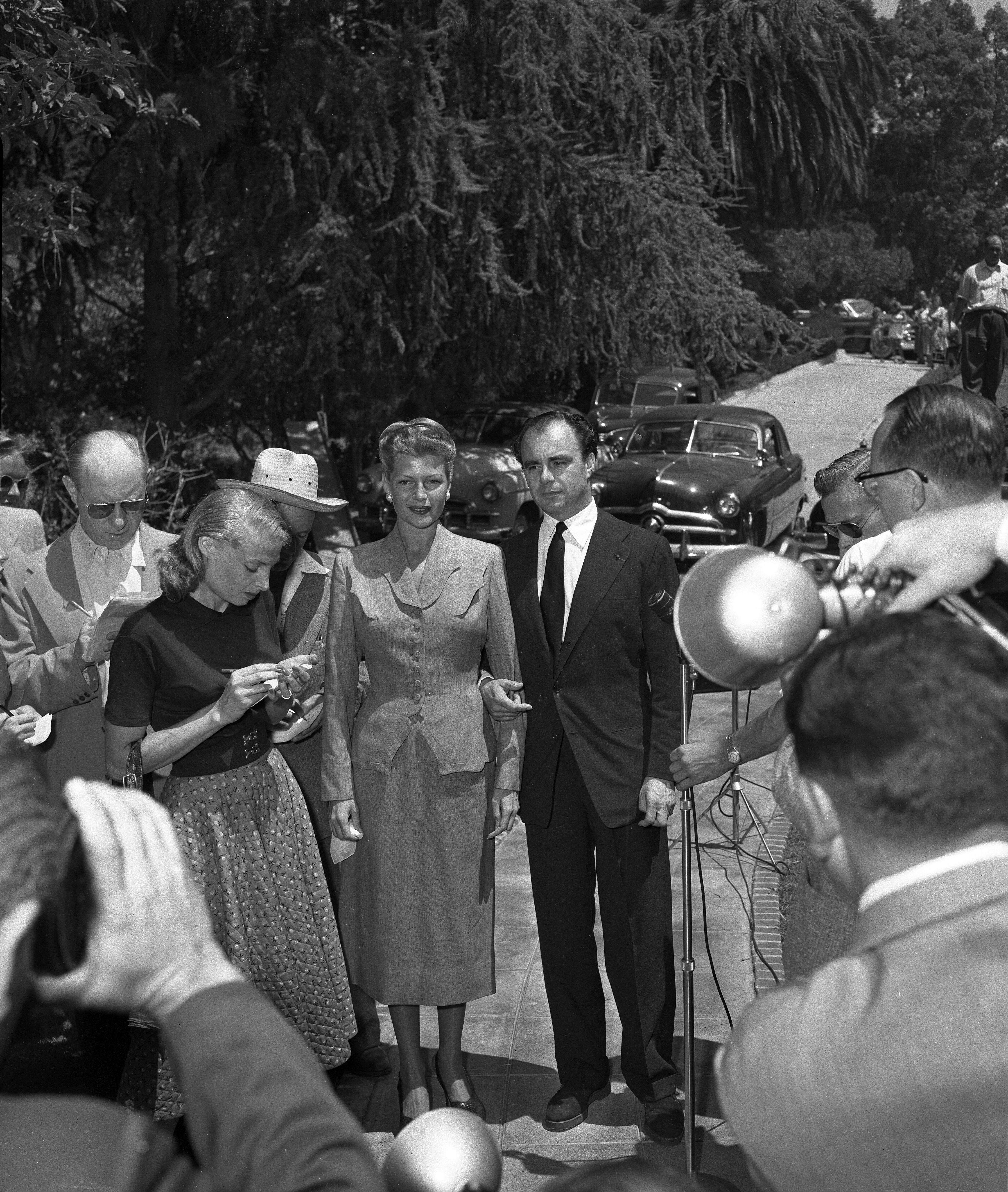 Rita Hayworth and estranged husband Aly Kahn surrounded by reporters outside Hayworth's home, 1952